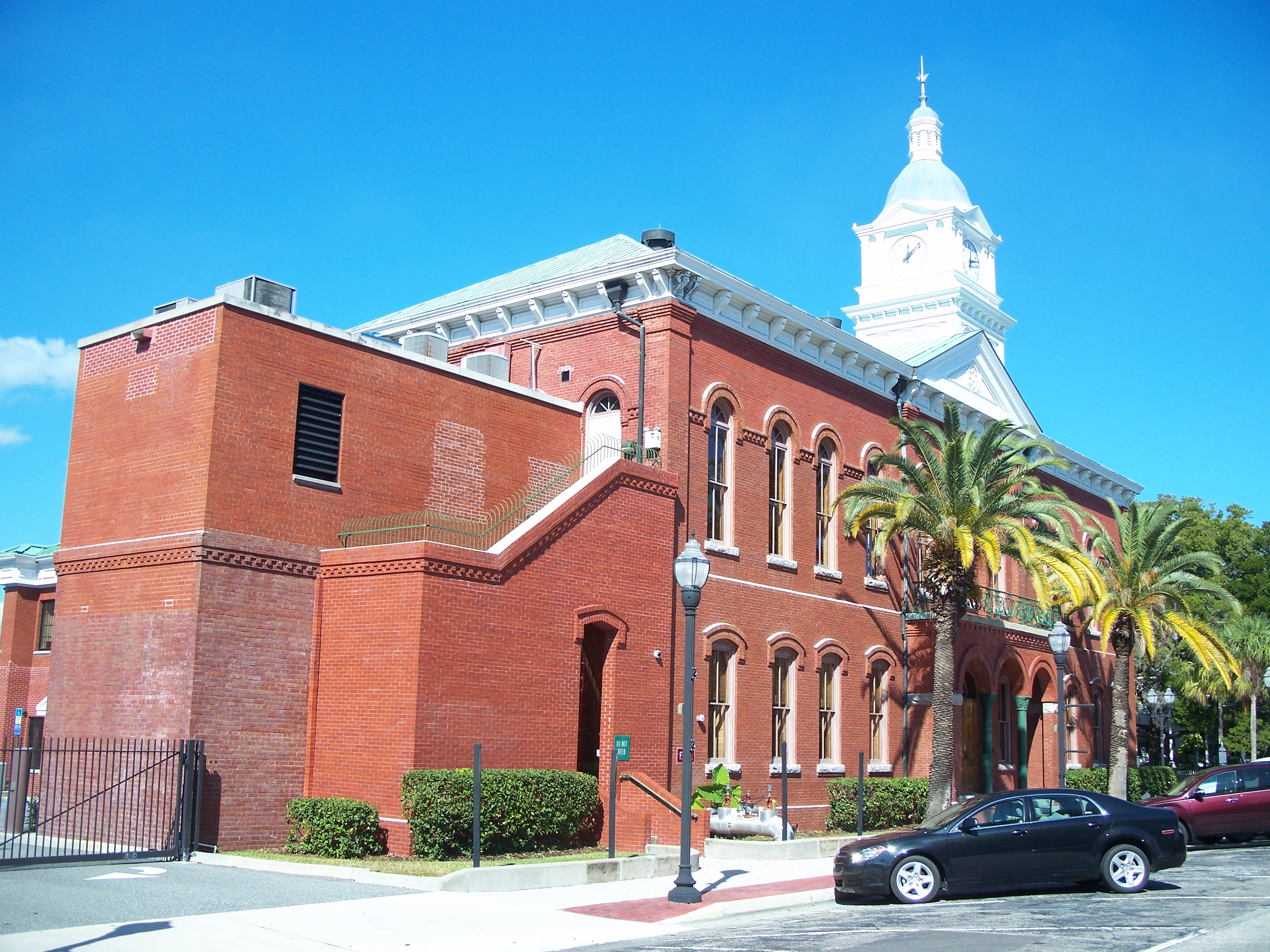 Fernandina Beach, Florida: Nassau County Courthouse